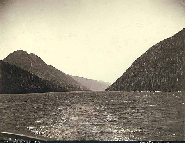 Caption on image: "Grenville Channel, B. C." Subjects (LCTGM): Channels--British Columbia Subjects (LCSH): Grenville Channel (B.C.)